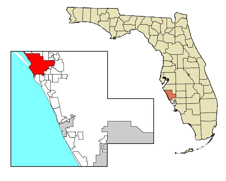 State of Florida with city limits of Sarasota highlighted in red modified from File:Sarasota map 83d40m city boundary cor4wGoM highlighted.JPG